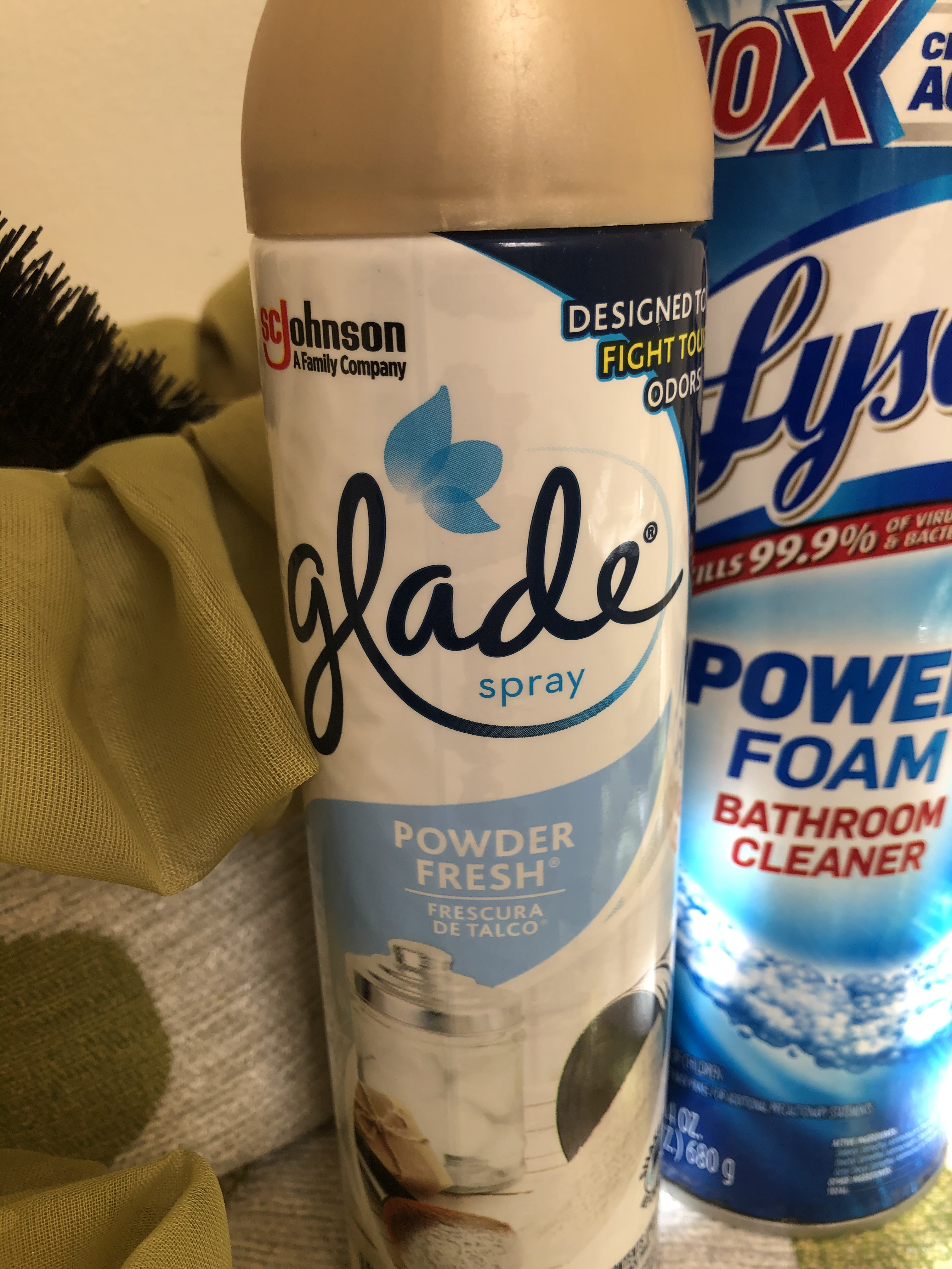 A can of Glade air freshener next to Lysol cleaner.